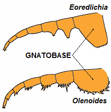 Gnathobases (spiny processes on the proximal tract of the ventral appendages) of two early trilobite genera Eoredlichia and Olenoides.